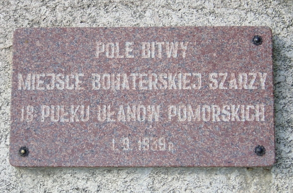 Krojanty village, northern Poland - memorial plaque